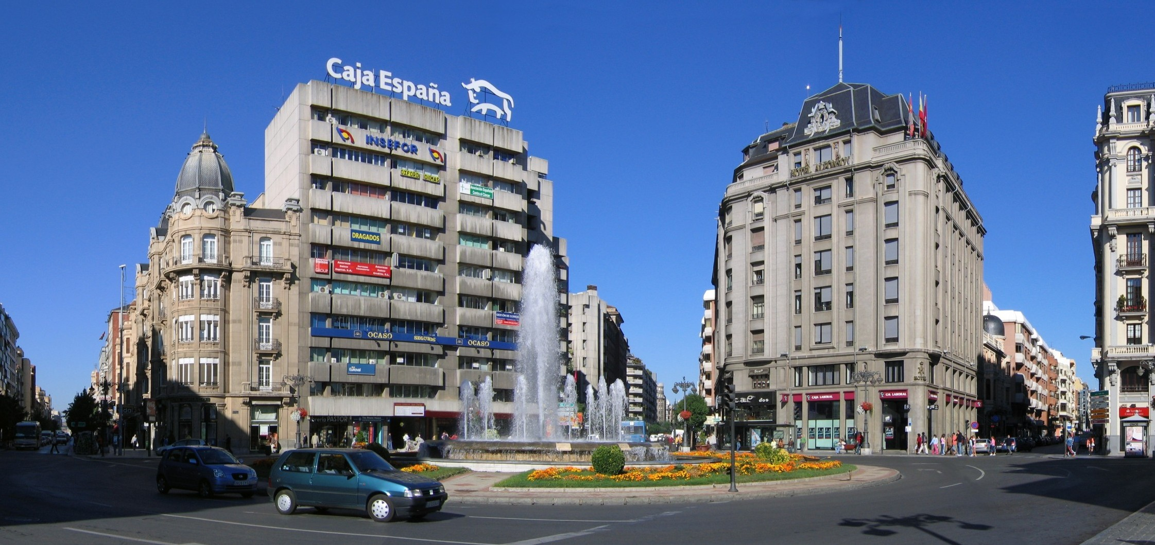 Leon (Spain), Plaza Santo Domingo in the City of Leon